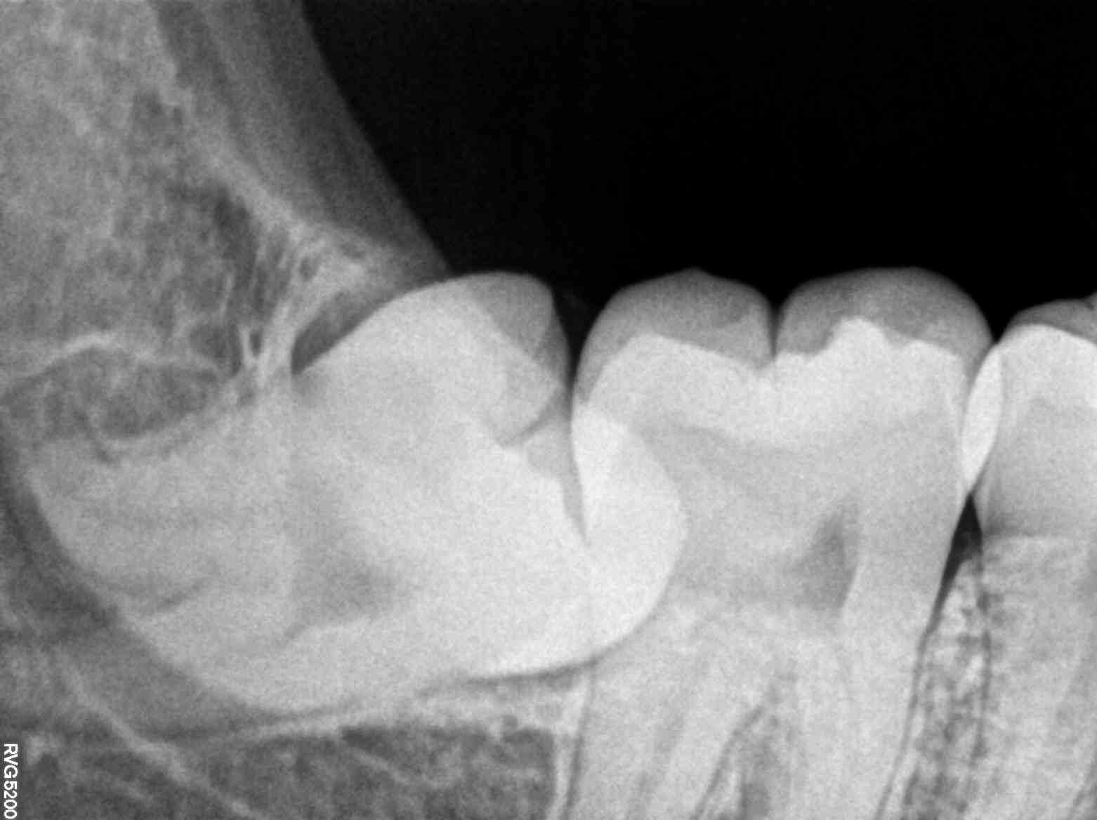 RVG / Intraoral Periapical Xray of Impacted Lower Right Third Molar No. 48 (Wisdom Tooth) of 28 years old women